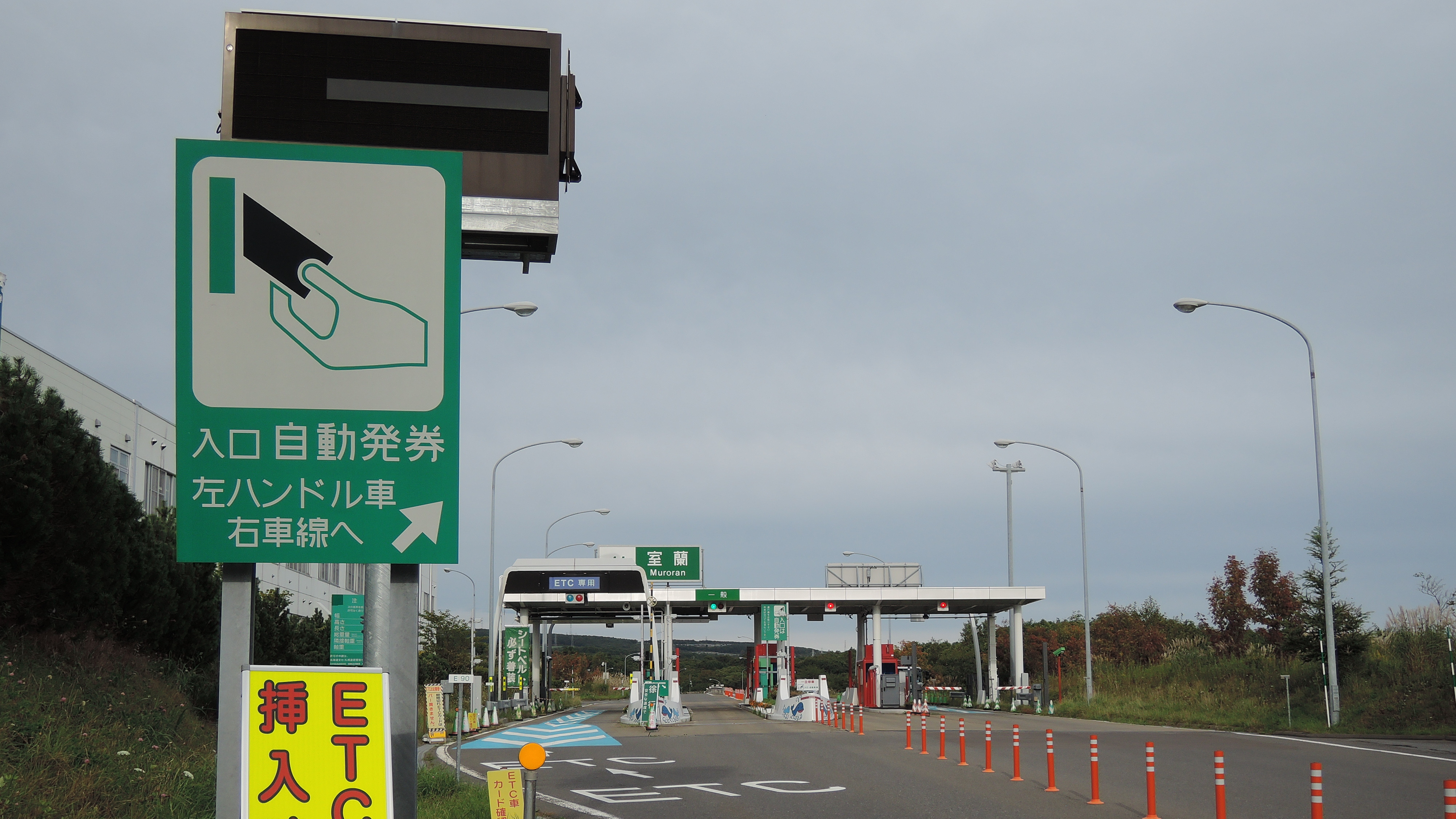 Muroran Inter Change, Hokkaido Prefecture, Japan